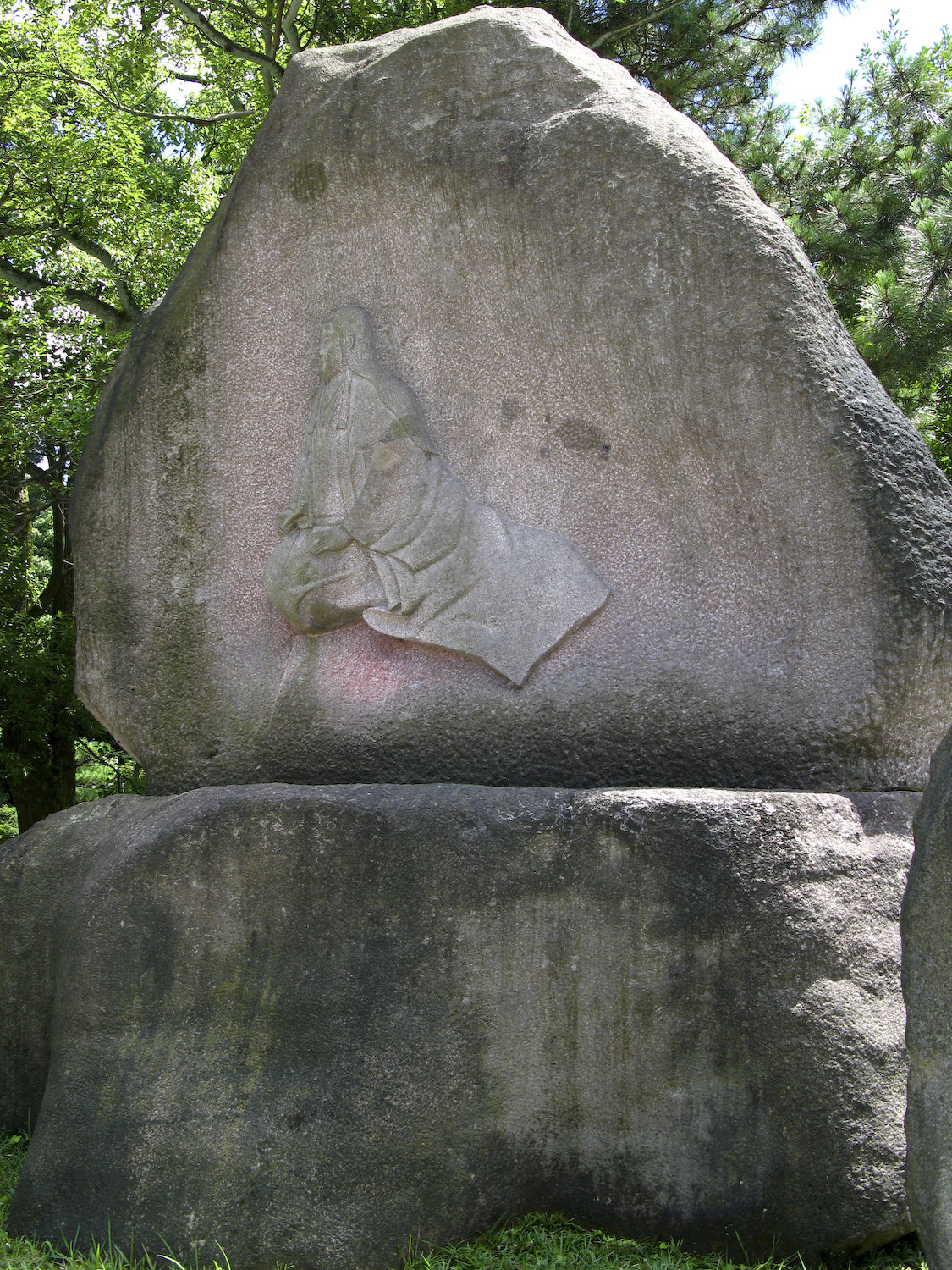 Relief of Matsu, wife of Maeda Toshiie, at Oyama Shrine, in Kanazawa, Ishikawa Prefecture, Japan.